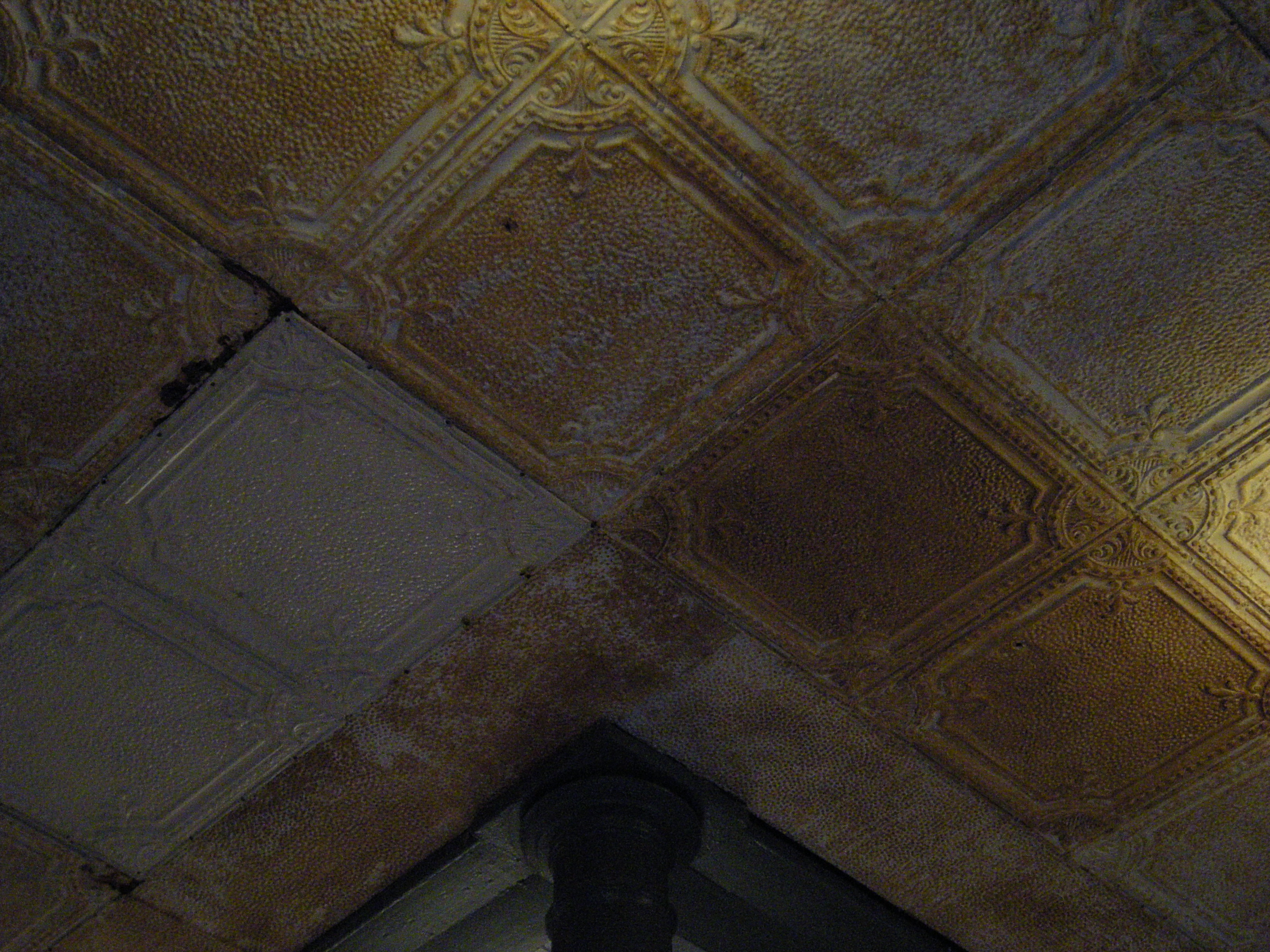 Pressed tin ceiling (at least I believe it's pressed tin) over the entrance of the Art Glass store, 915 Harris Street, historic Fairhaven district, Bellingham, Washington.